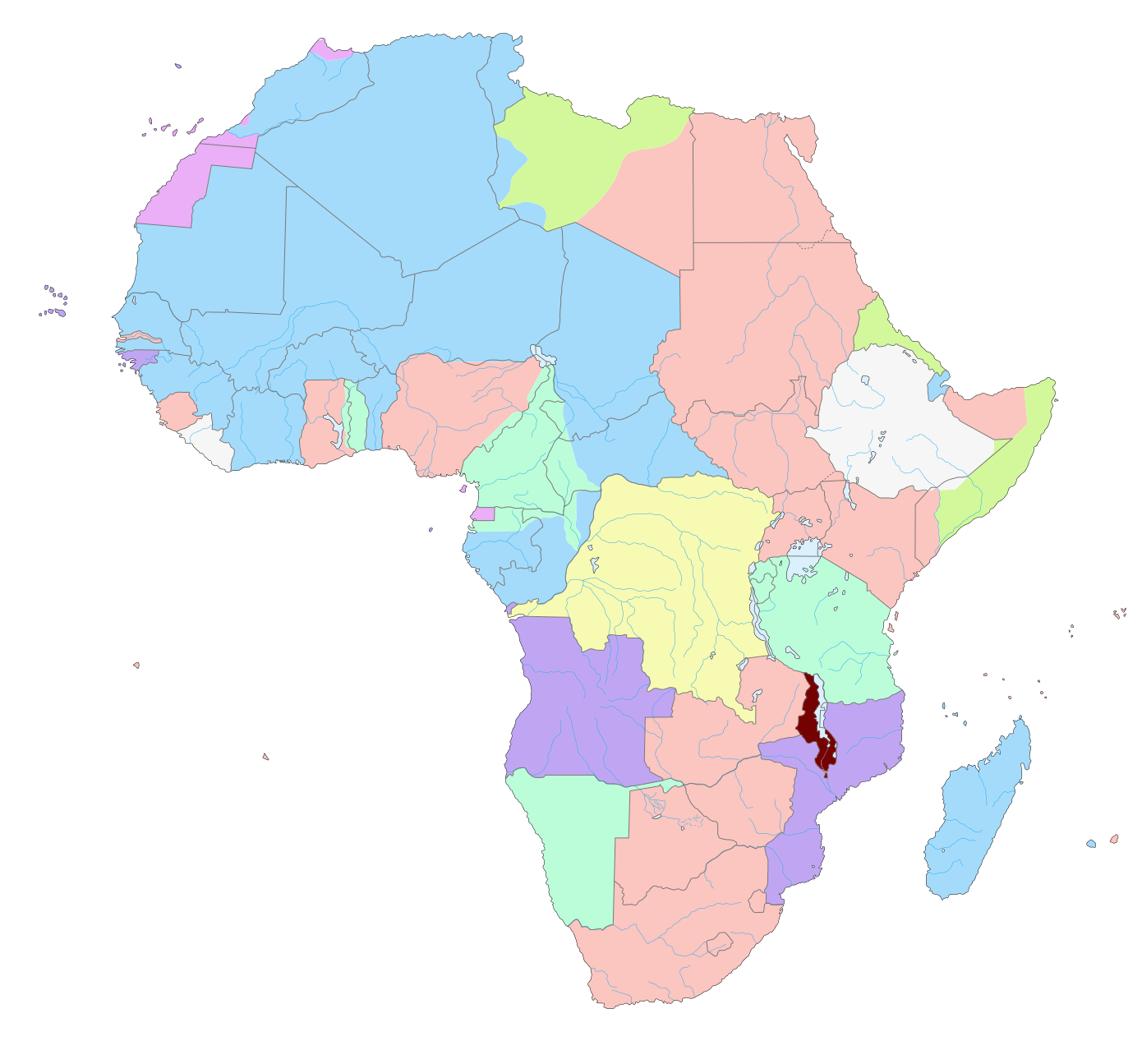 Map of Africa in 1913, with Nyasaland highlighted. Derivative of file:Colonial Africa 1913 map.svg